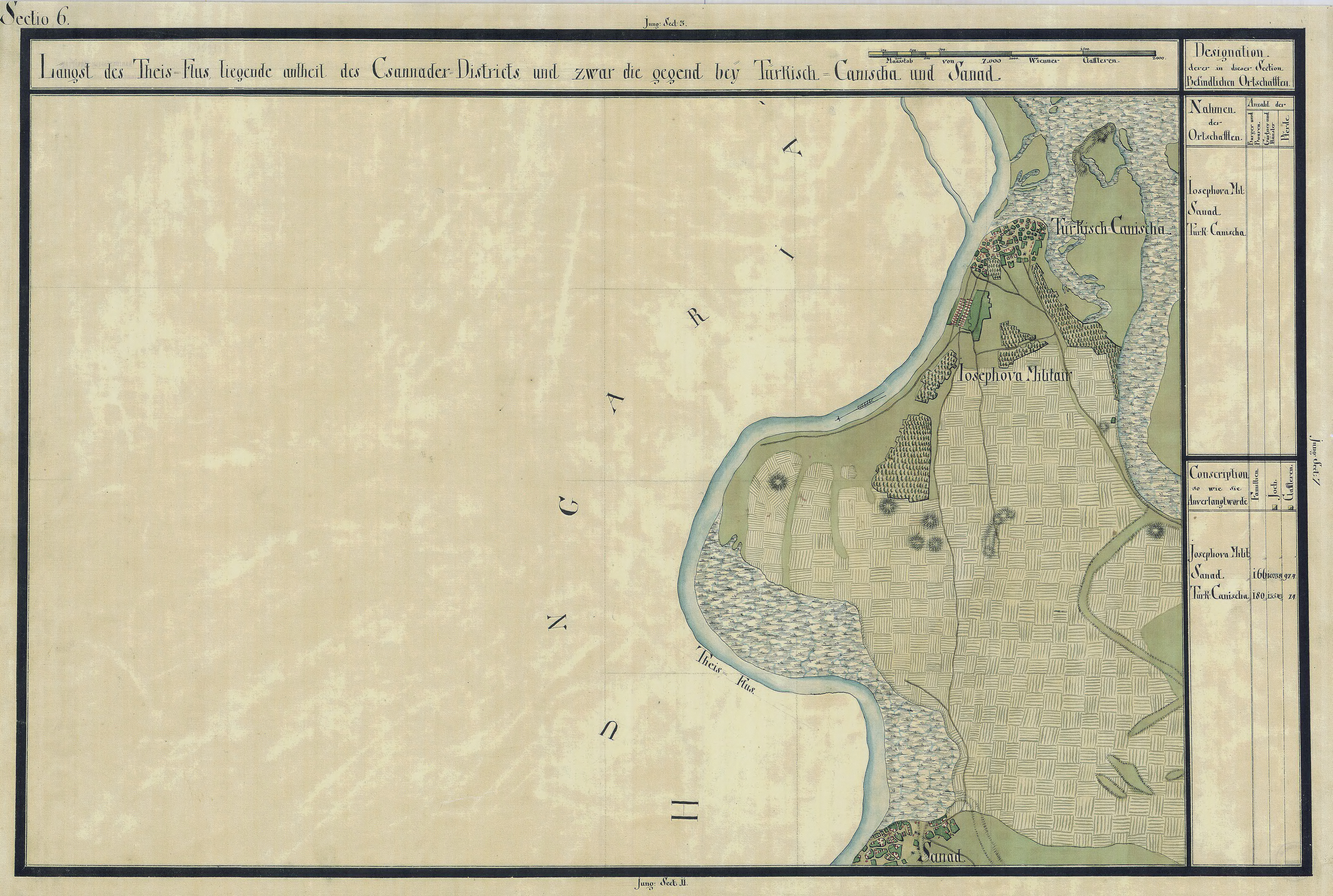 The Banat region in the cadastral maps: Josephinische Landesaufnahme, 1769-72. Josephinische Landaufnahme pg006